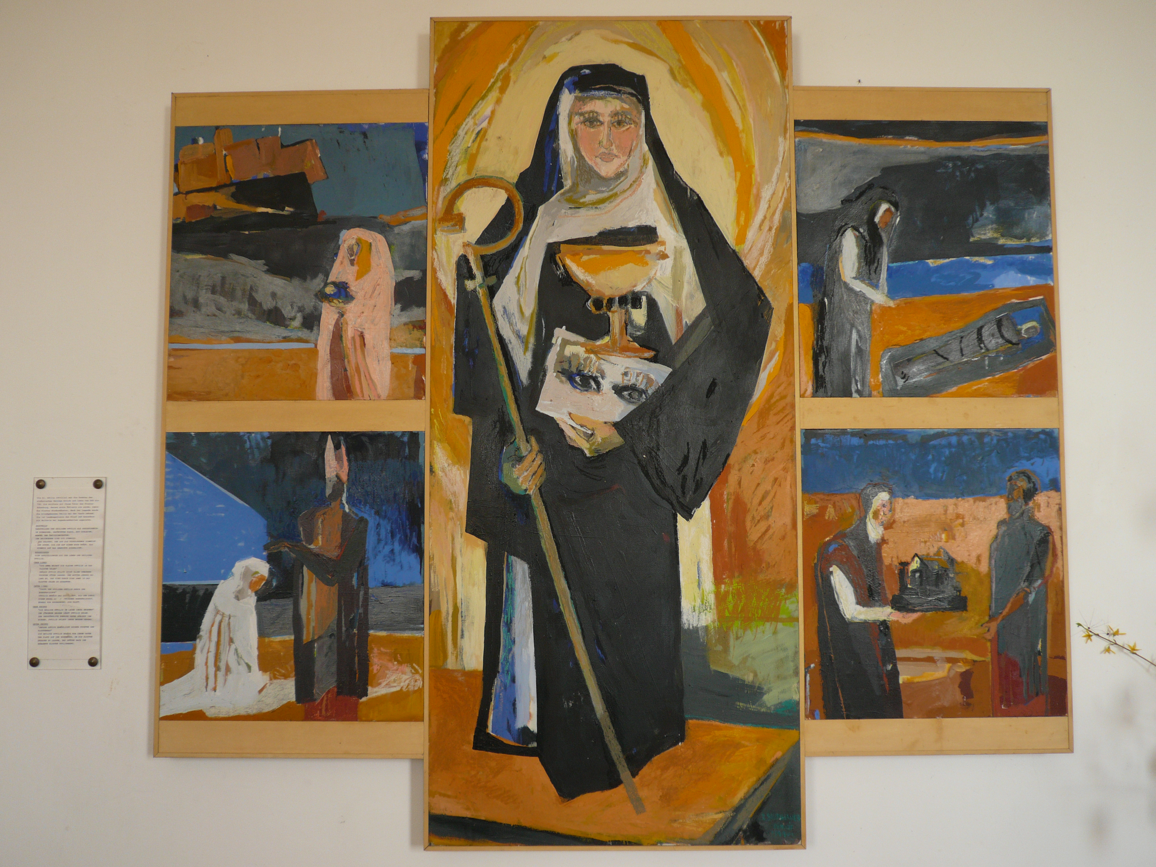 Holy Odilia, painting in Ottilienkapelle in Horb